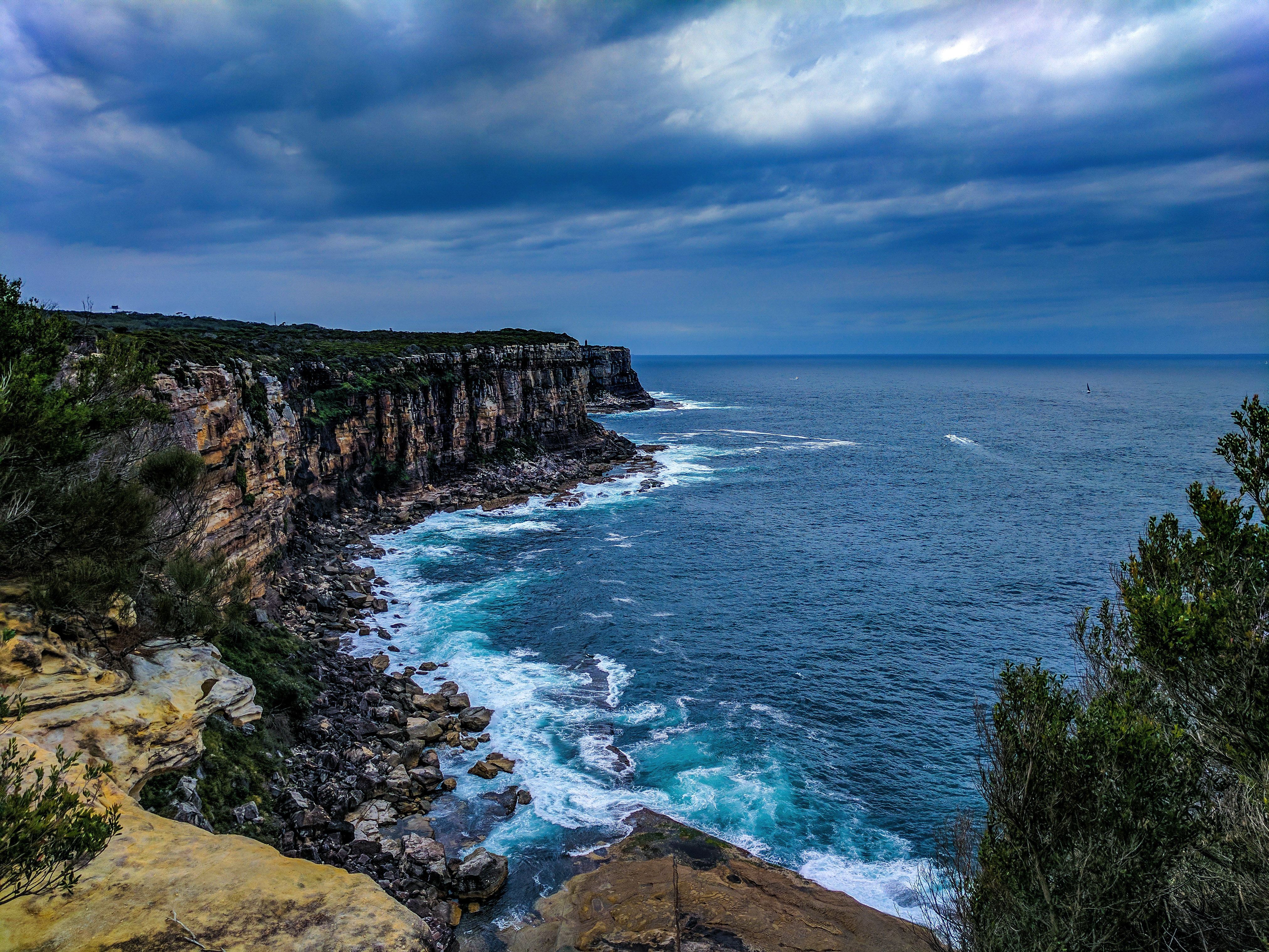 The Cliffs at North Head sanctuary, Manly, NSW.